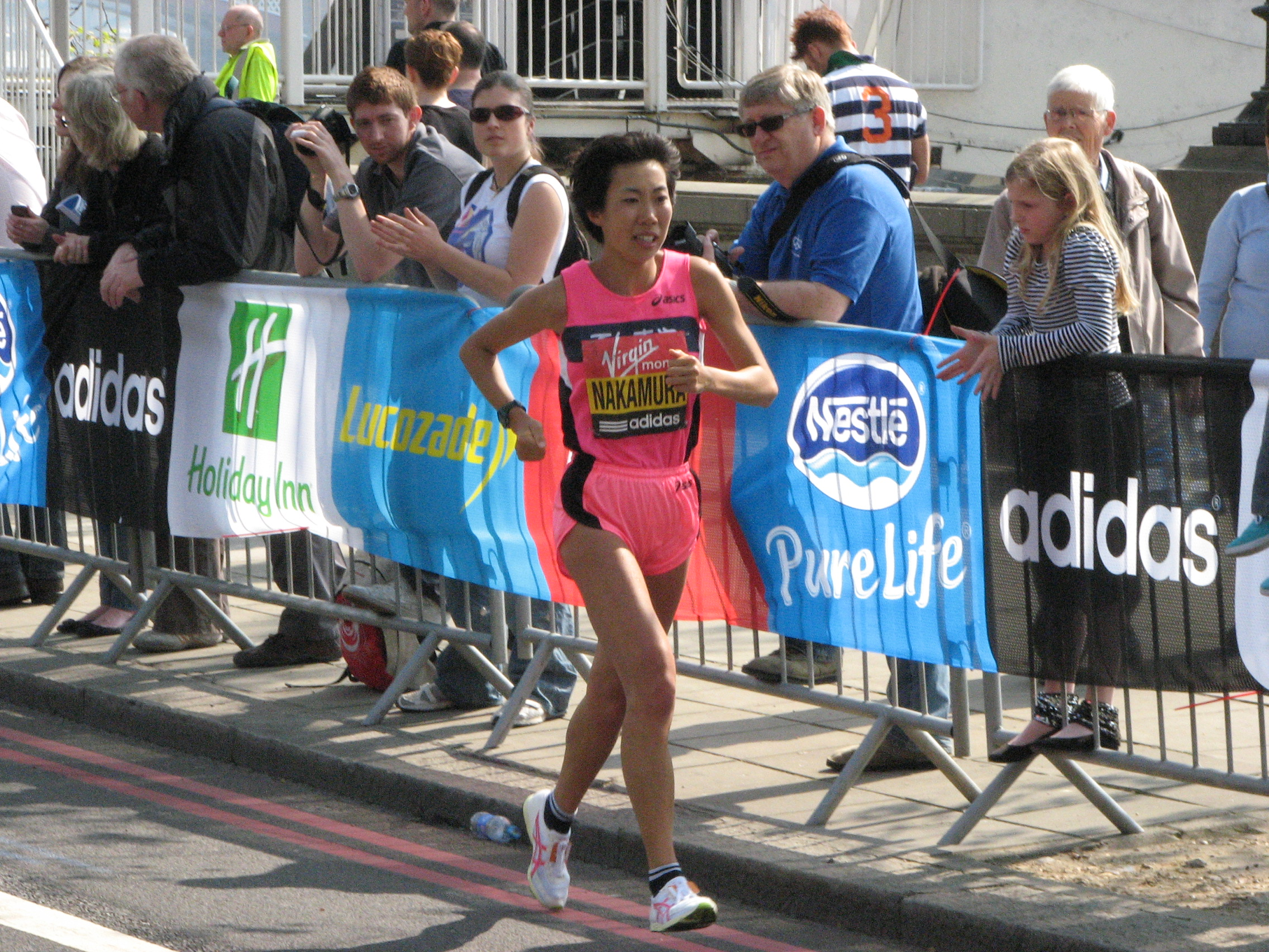 Yurika Nakamura came in 31st with 2:41:22. Virgin London Marathon, 17 April 2011. Taken from 24 and a half miles, at the (western) junction of Victoria Embankment and Temple Place, very close to the Walkabout.